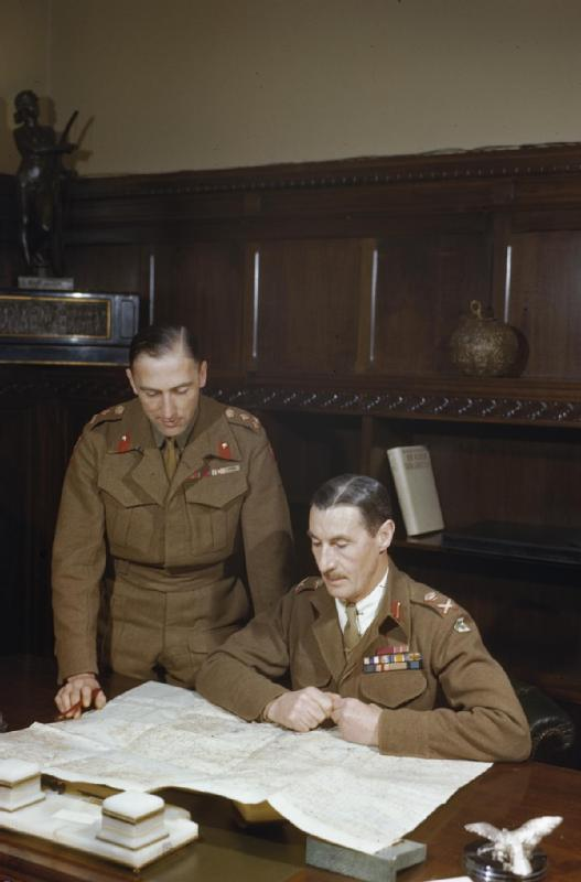 Photograph of Lieutenant General R M Scobie, General Officer Commanding Allied Land Forces Greece, at his desk looking at a map with his Brigadier General Staff, Brigadier H S K Mainwaring at his headquarters in Athens, Greece.